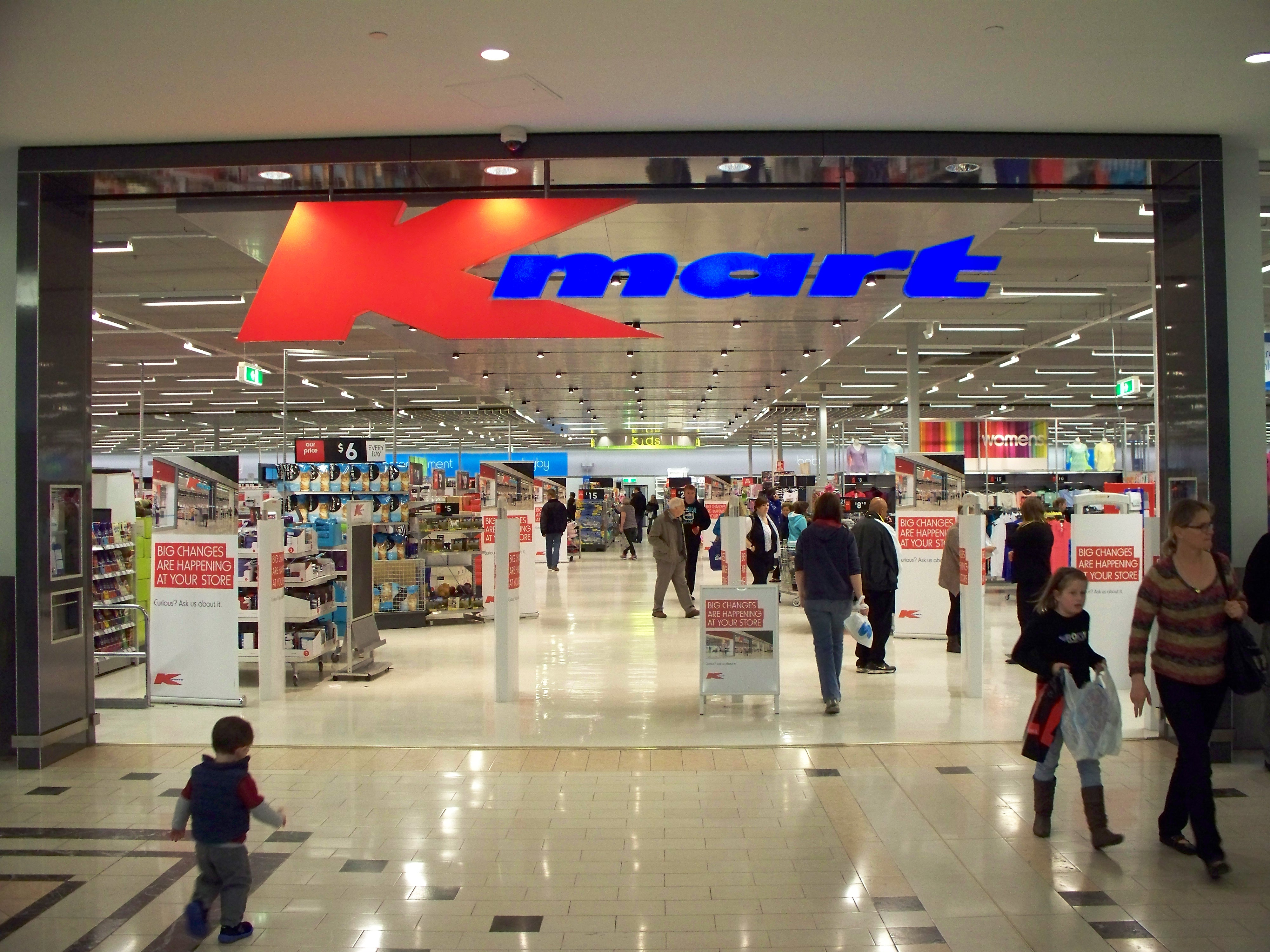 A Kmart store within Eastland Shopping Centre, Ringwood, an eastern suburb of Melbourne.